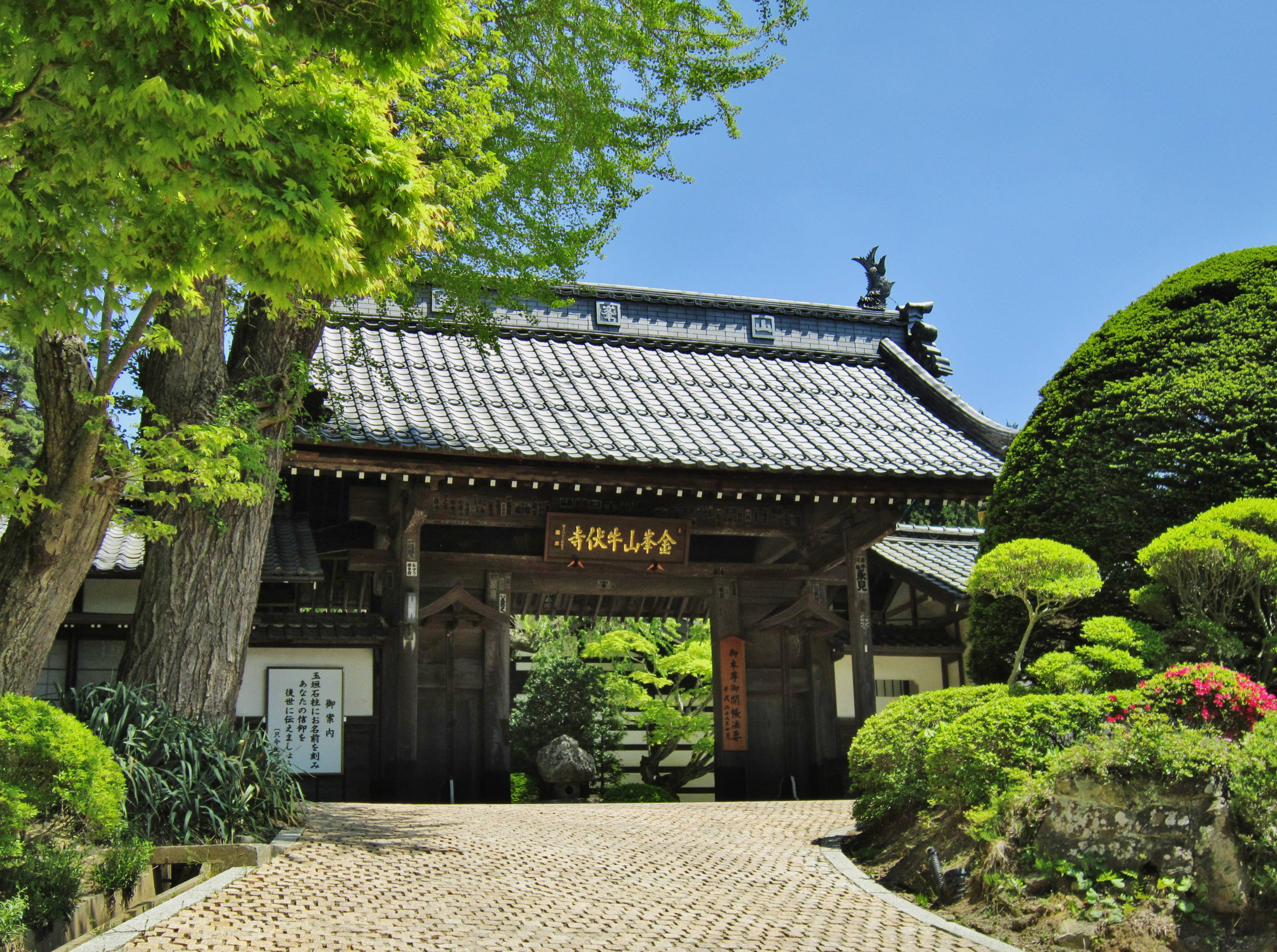 Gofuku-ji sanmon.